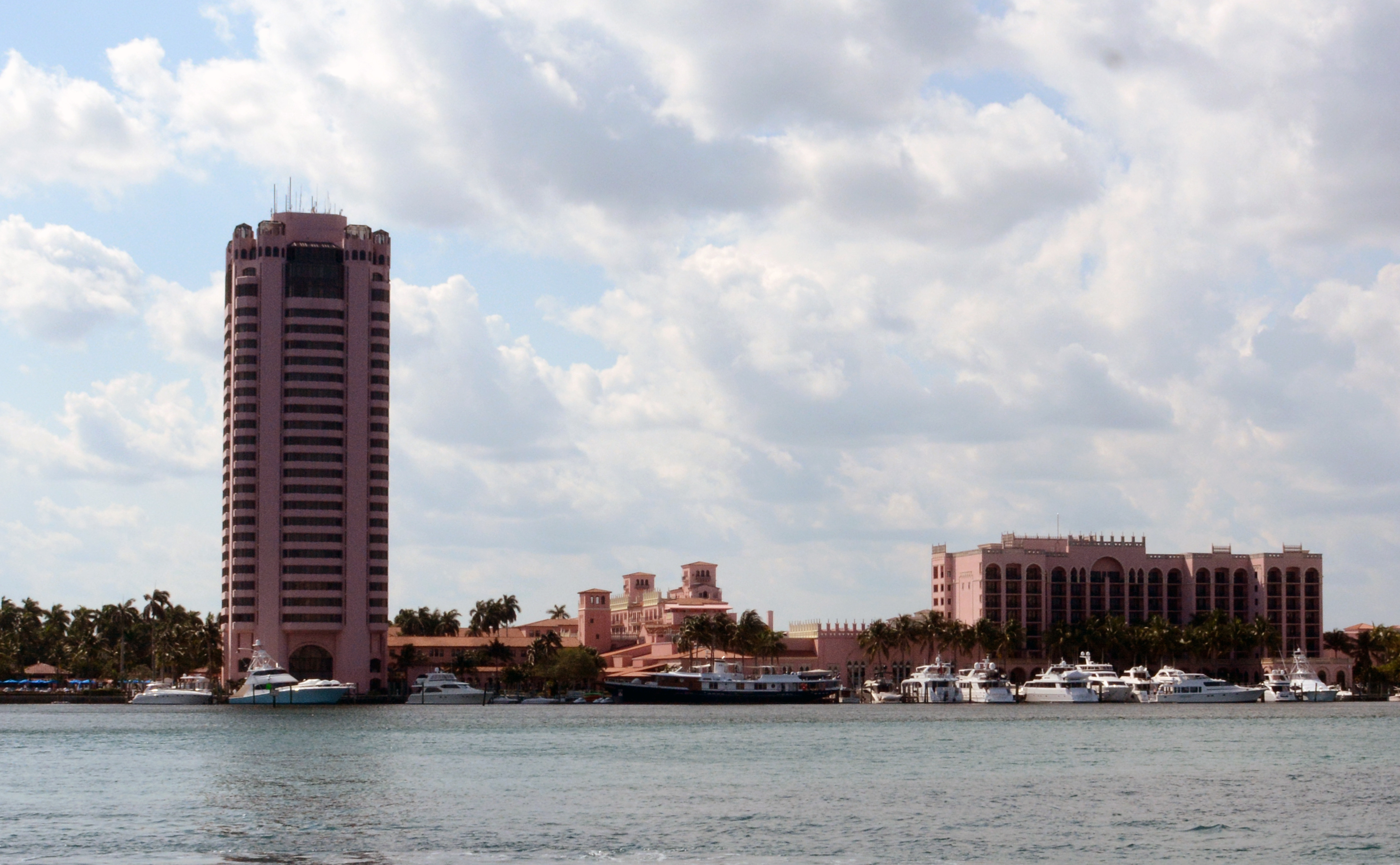 Boca Rotan Resort Photo D Ramey Logan